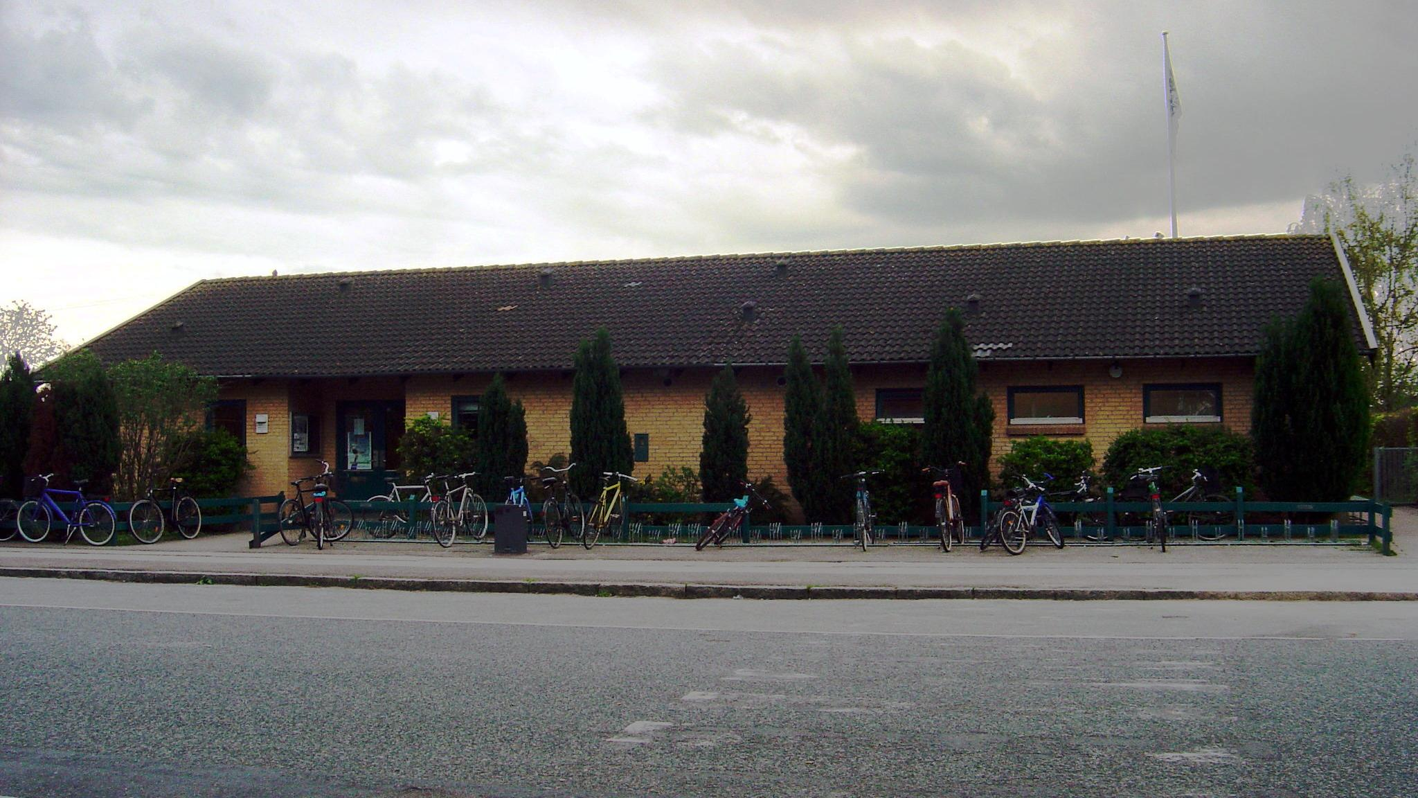 Boldklubben 1908 - the club house of a Danish association football club on Sundbyvestervej, Amager, Copenhagen. Seen from the northern side, next to Sundby Idrætspark.